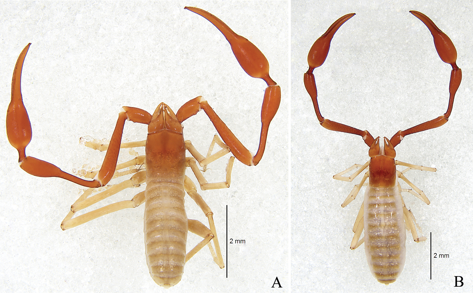 Figure 15; Parobisium tiani sp. nov. A Holotype male, dorsal view B Paratype female, dorsal view.